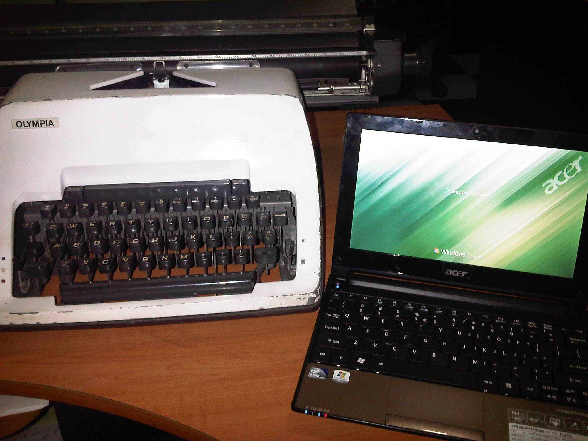 Olympia typewriter (left) and Acer Aspire One D255 (right) on the table.